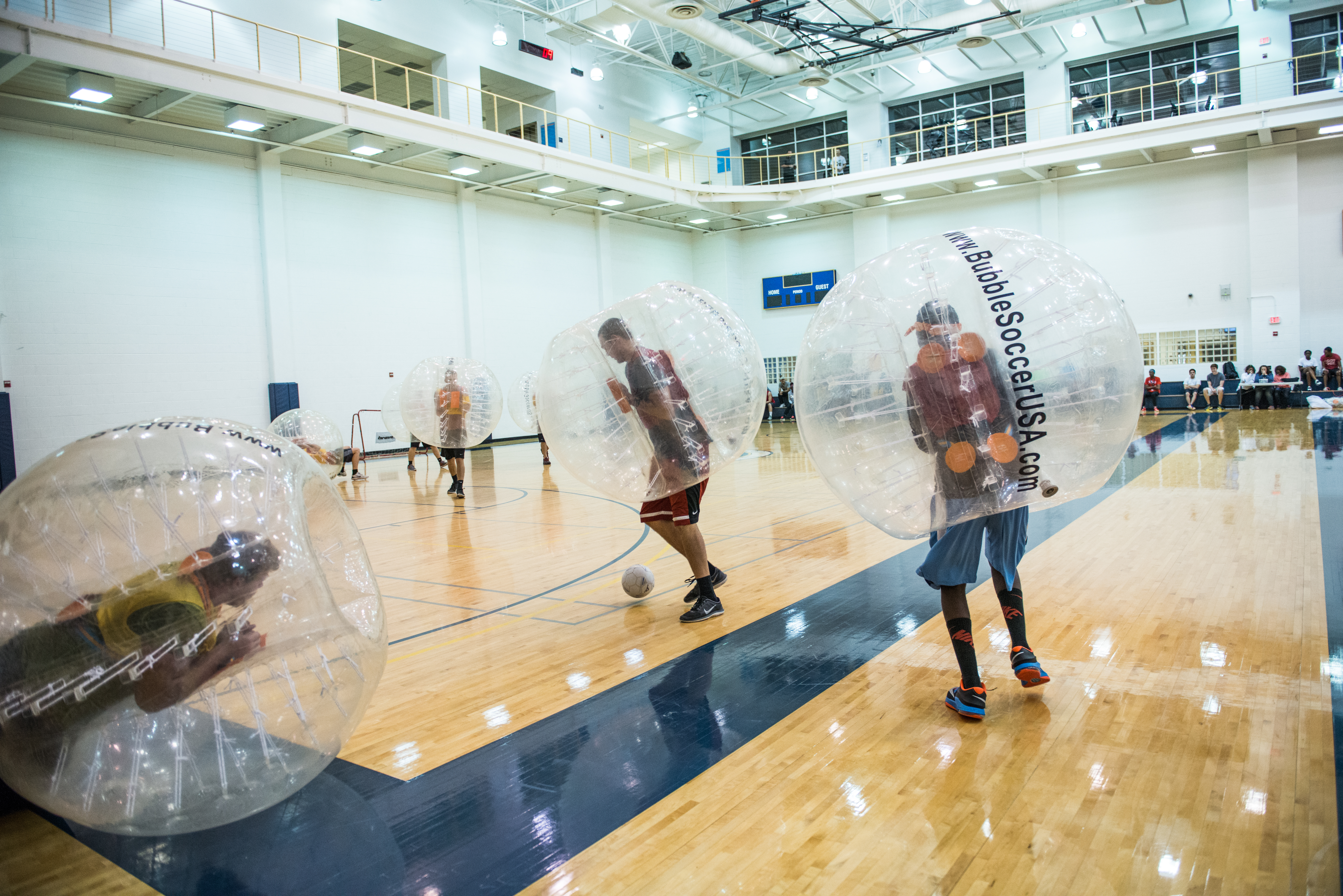 14548-Bubble Soccer-9085.jpg Bubble soccer at Texas A&M University–Commerce